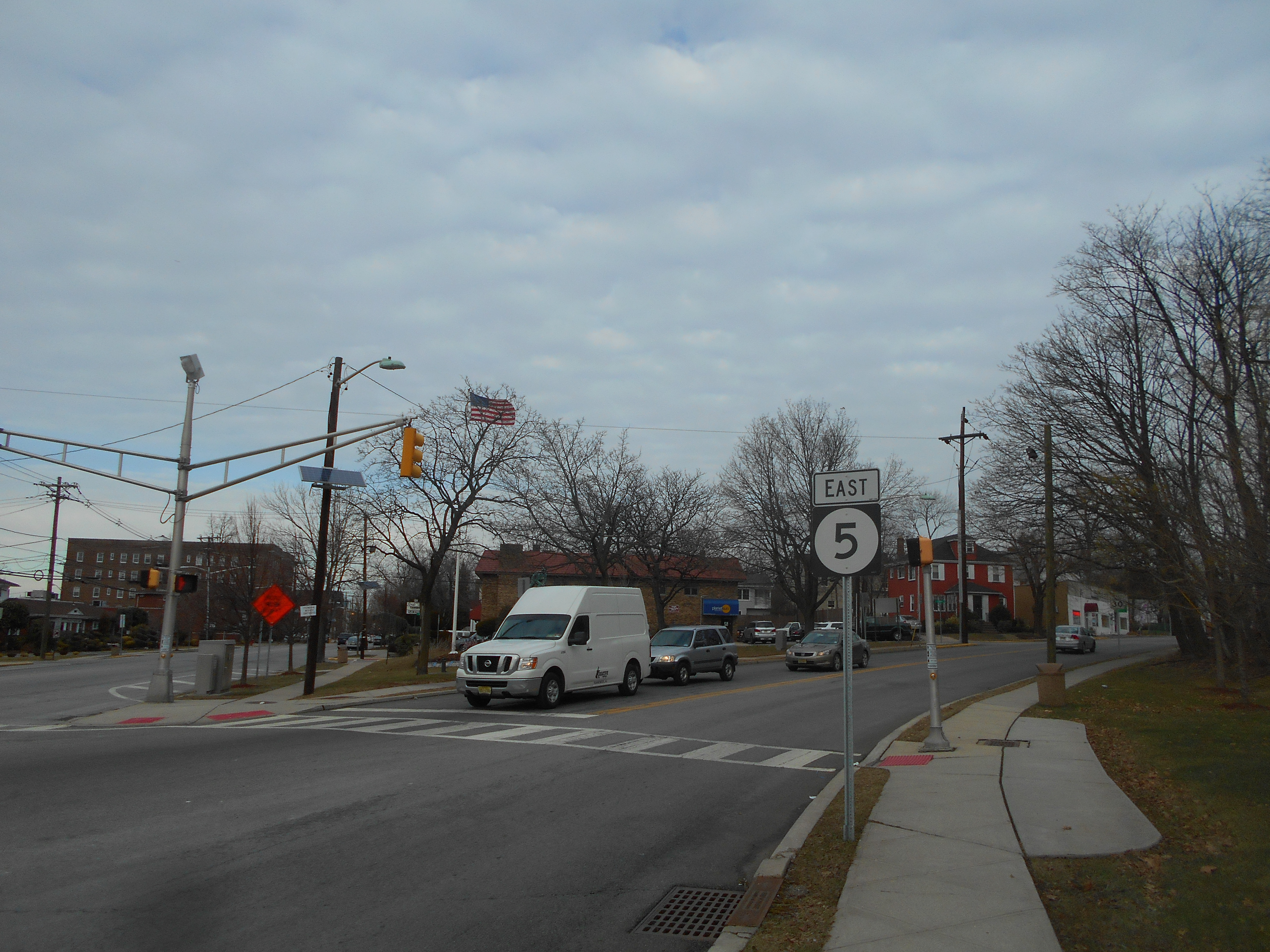 Route 5 east from U.S. Route 1 and 9 in Ridgefield, New Jersey.